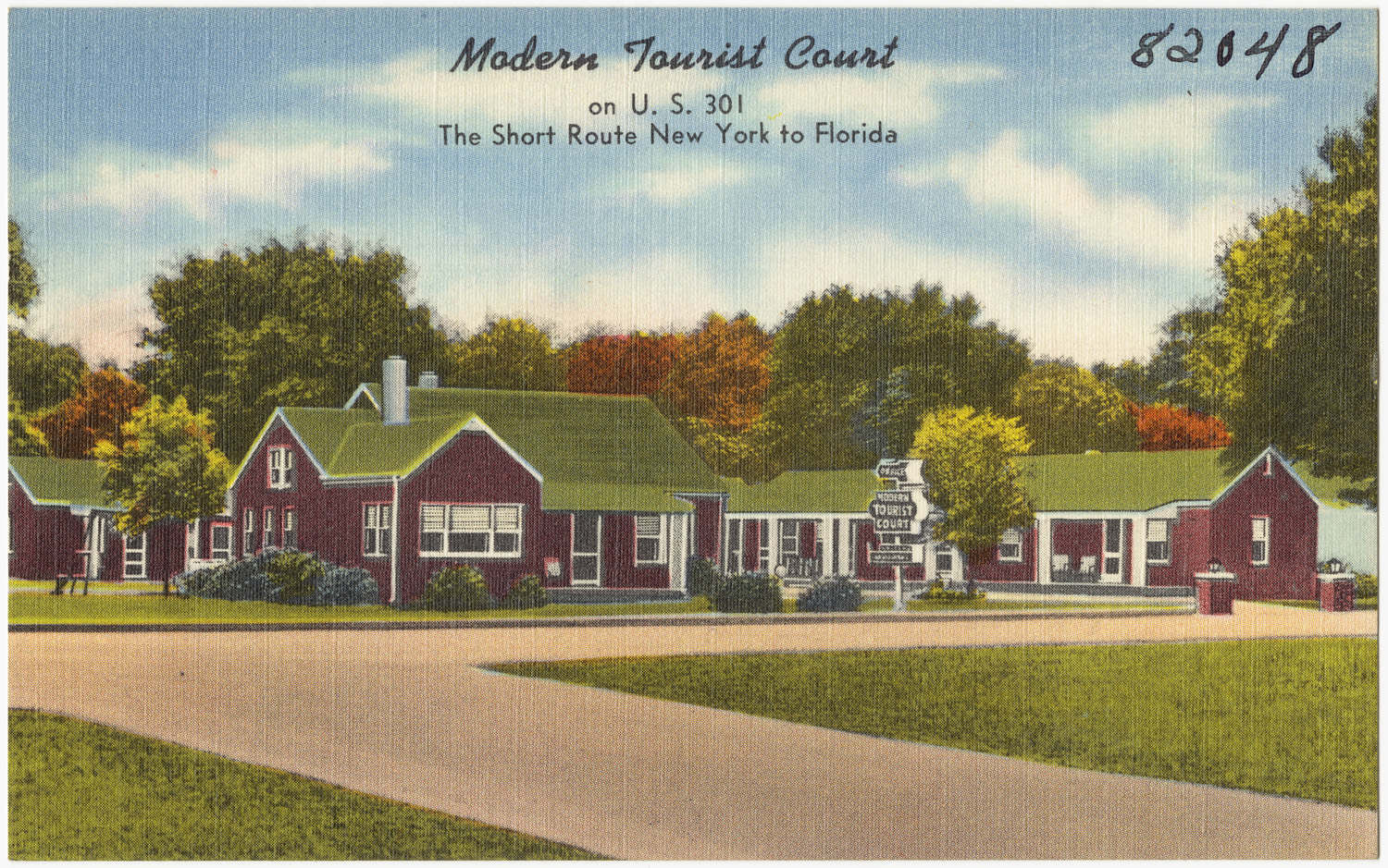 File name: 06_10_015894 Title: Modern Tourist Court, on U.S. 301, the short route New York to Florida Created/Published: Nationwide Advertising, Tyler, Texas Date issued: 1930 - 1945 (approximate) Physical description: 1 print (postcard) : linen texture, color ; 3 1/2 x 5 1/2 in. Genre: Postcards Subjects: Motels Notes: Collection: The Tichnor Brothers Collection Location: Boston Public Library, Print Department Rights: No known restrictions